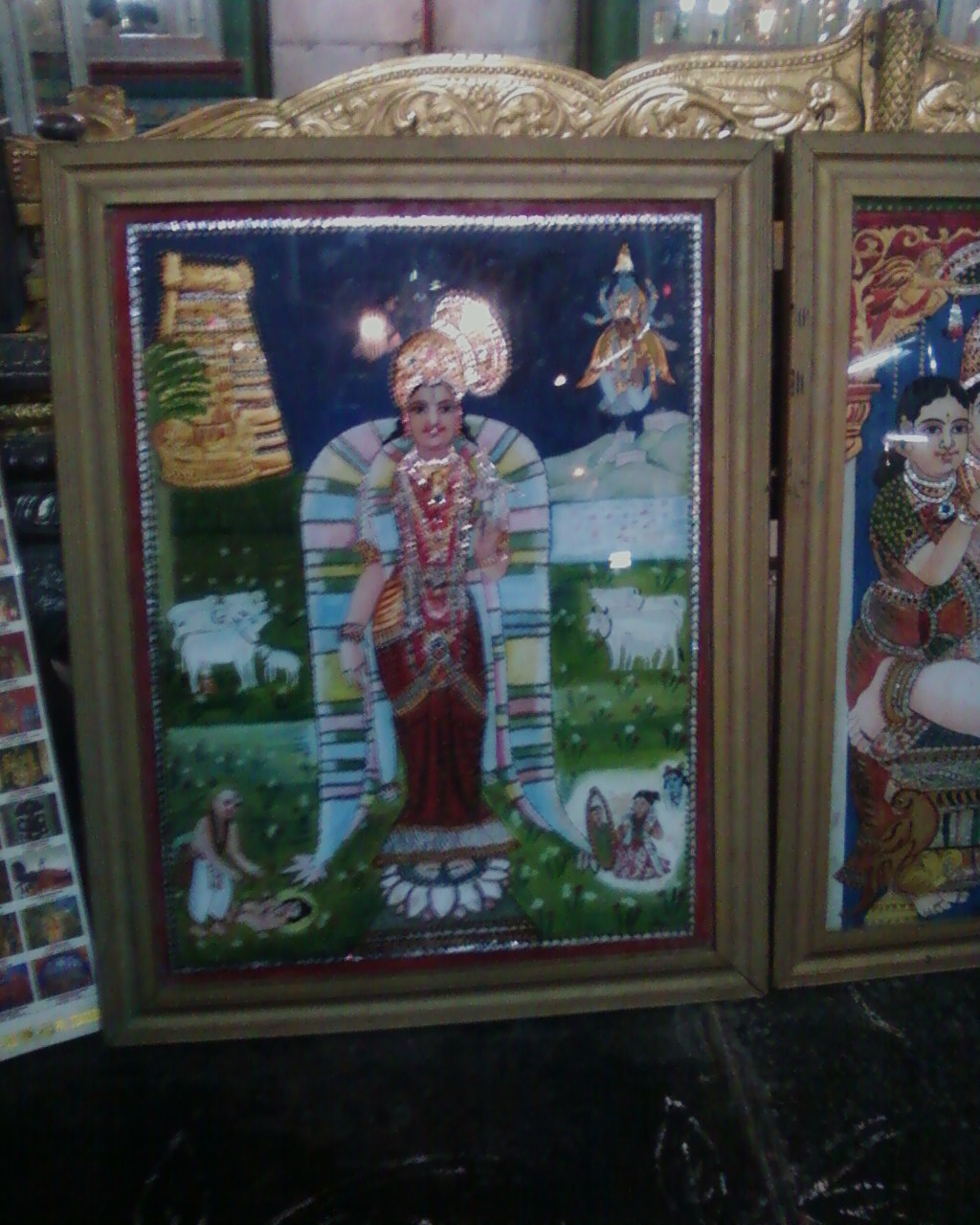 we worship god{